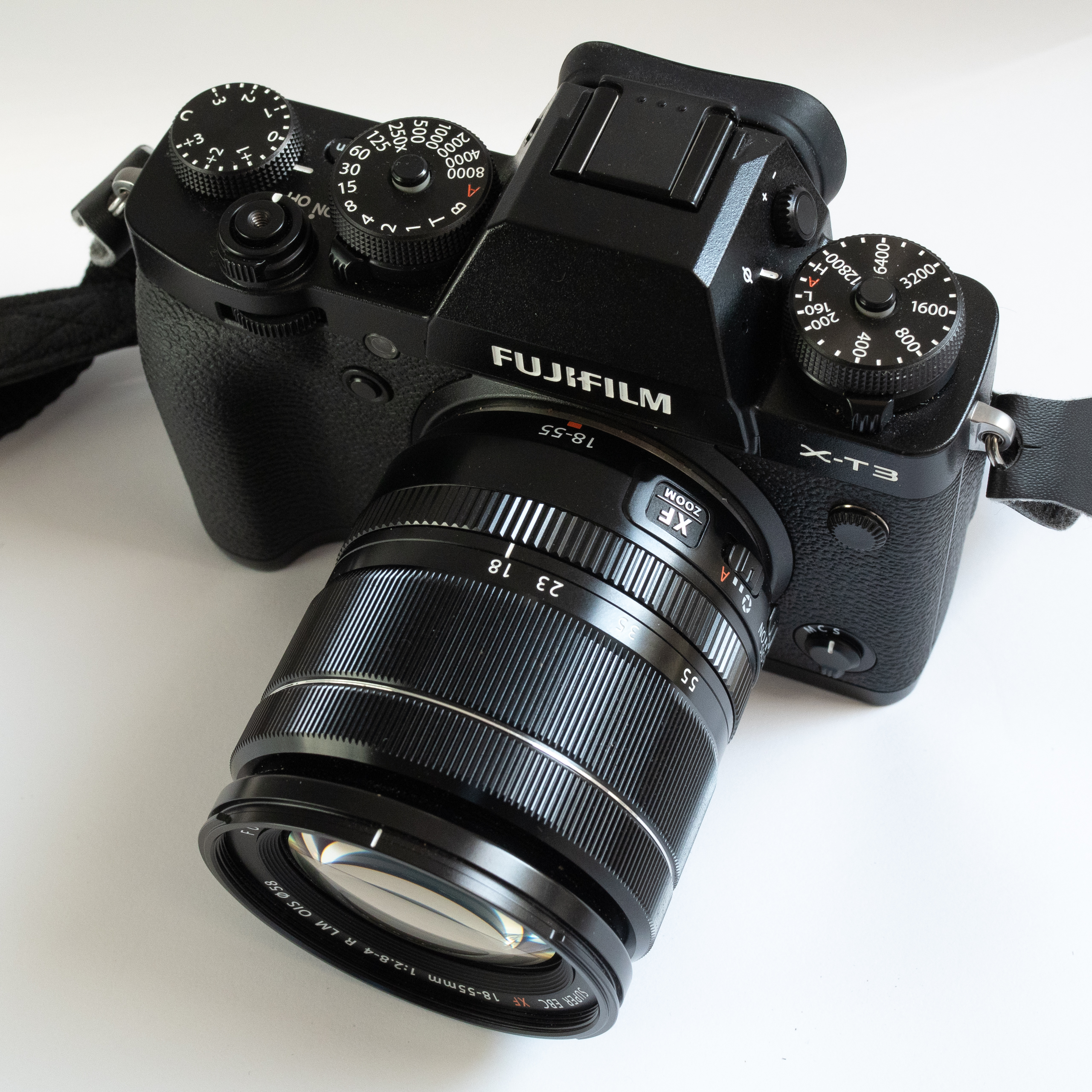 Fuji X-T3 and 18-55